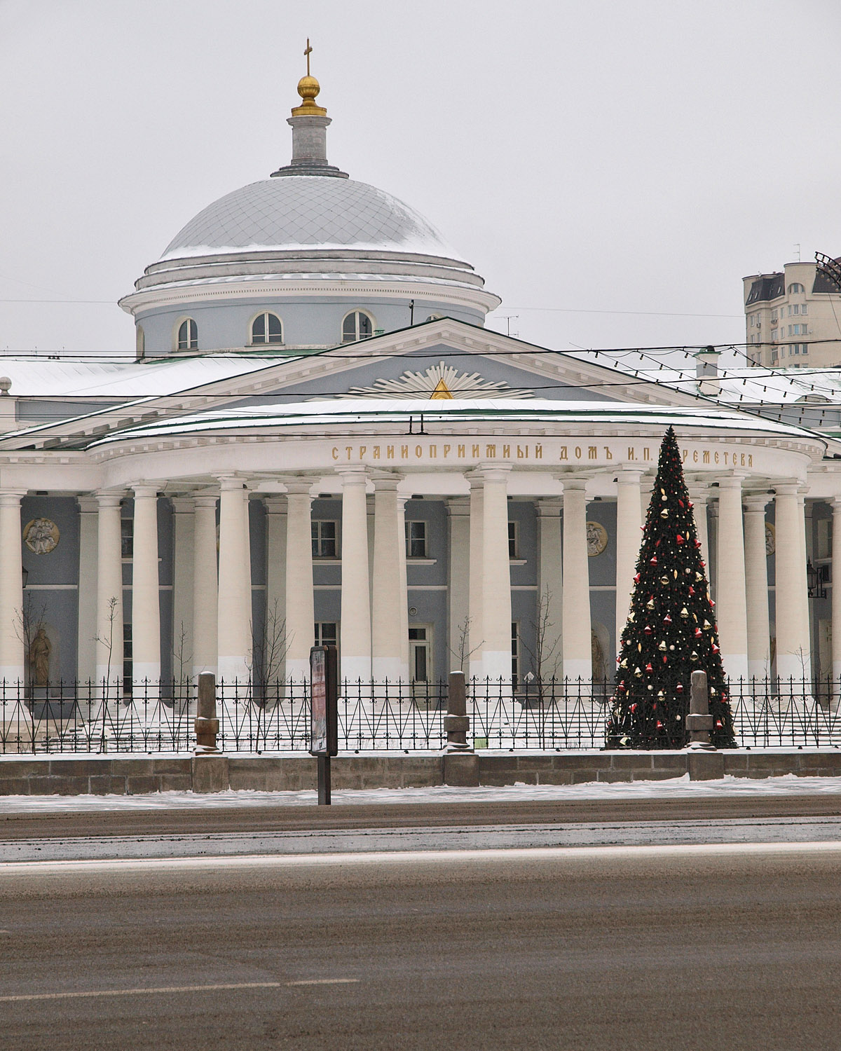 Moscow. New Year in Sklifosovsky Institute.